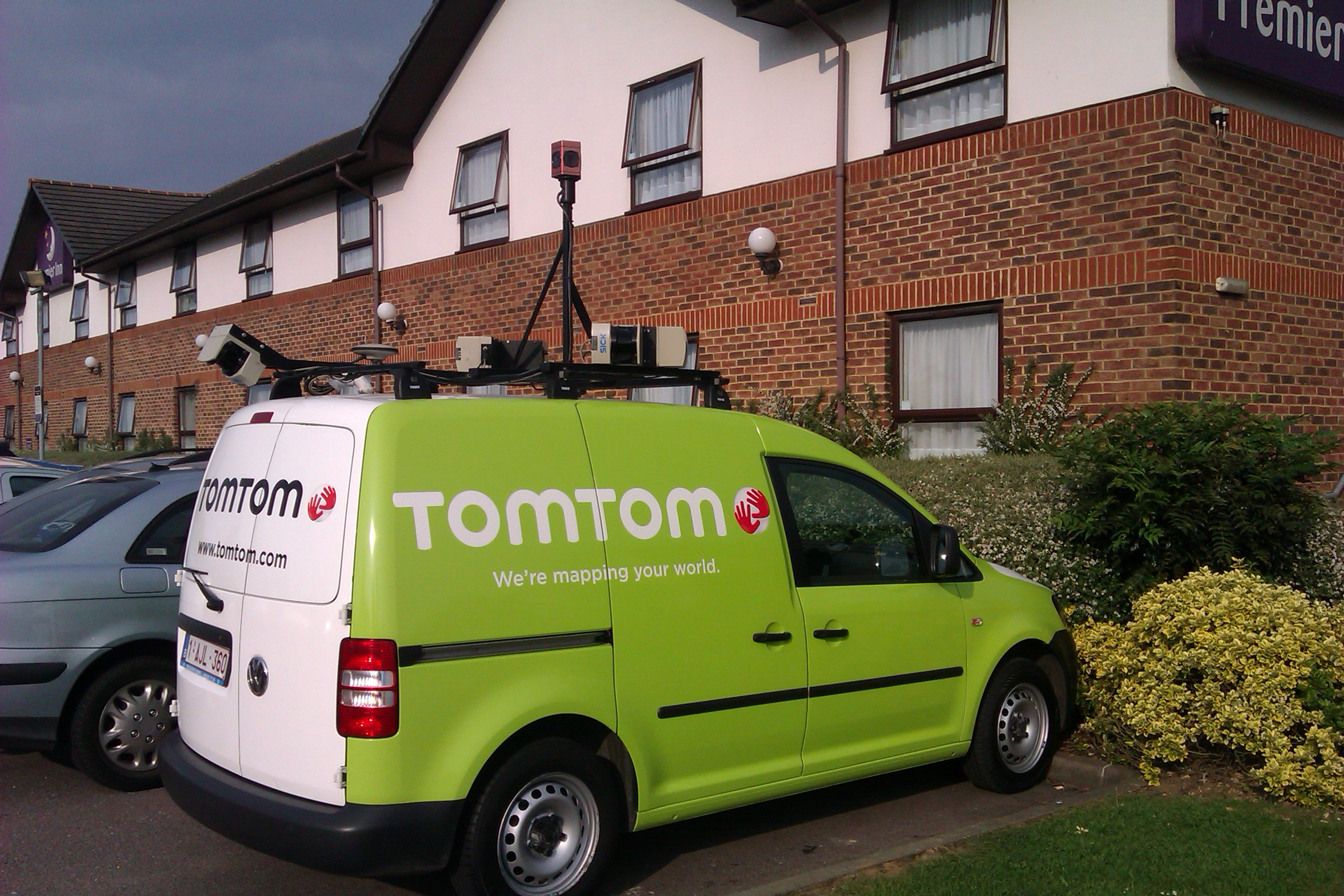 This TomTom branded mapping van is fitted with five LIDARs on a roof-mounted rack as well as other sensors.